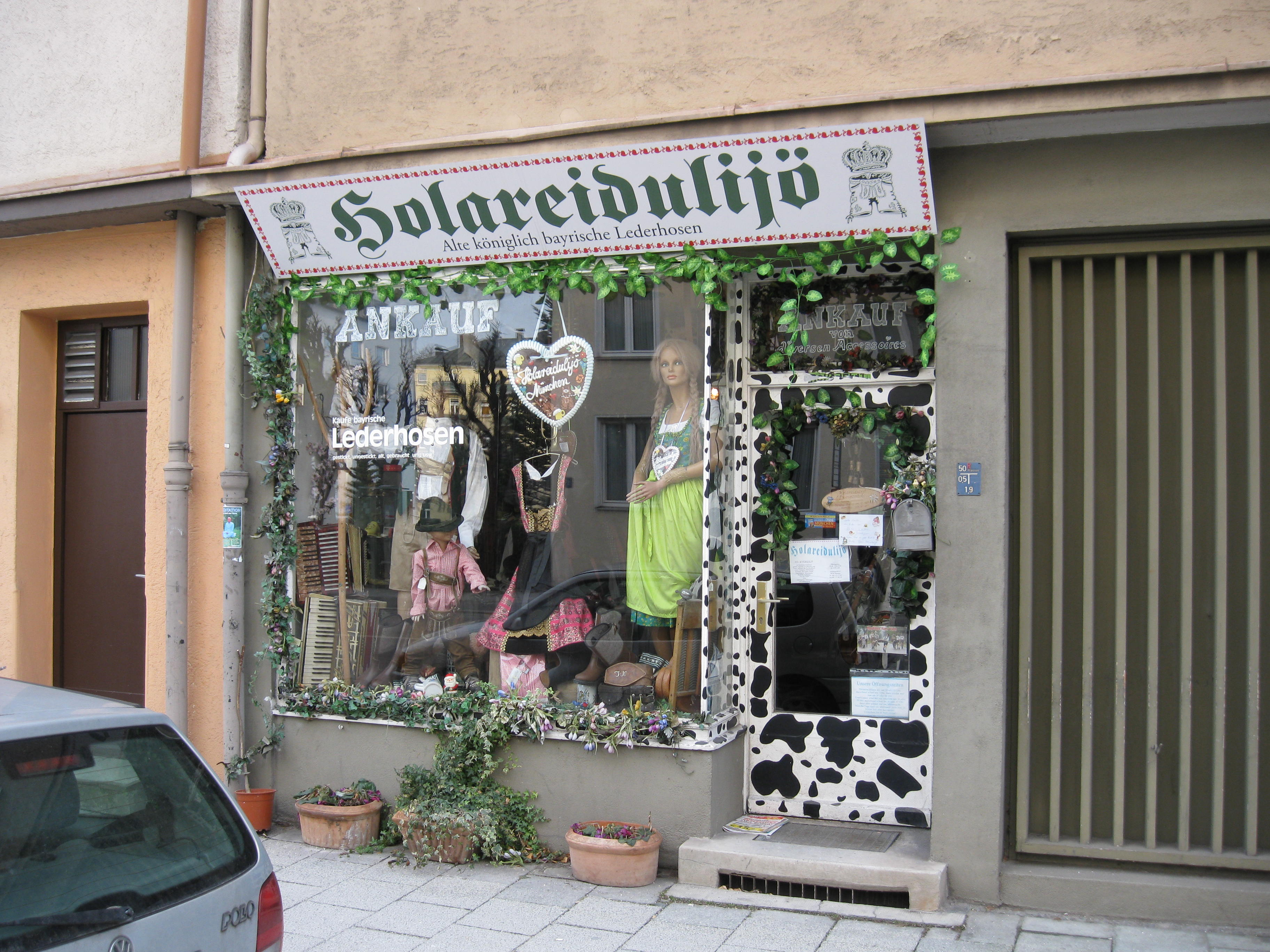 Shop in Munich, Schellingstrasse